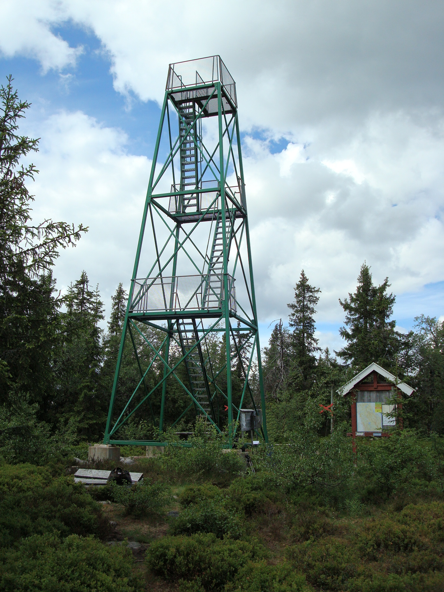 Granberget, Höljes, Värmland, Sweden